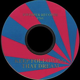 CD of Elvis Presley’s bootleg – Keep Following That Dream (2000)